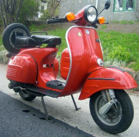 A scooter of the Indinan make Bajaj